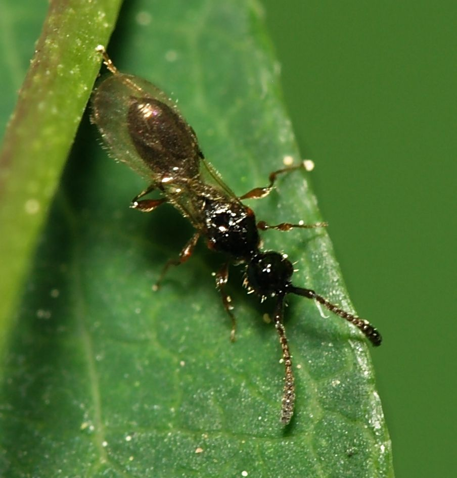 undetermined Diapriidae from Cologne, Germany.